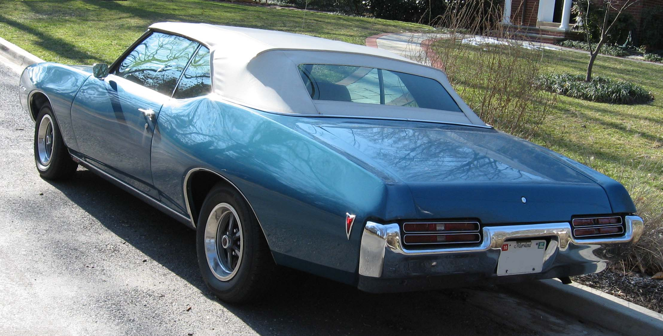 Pontiac LeMans photographed in USA.